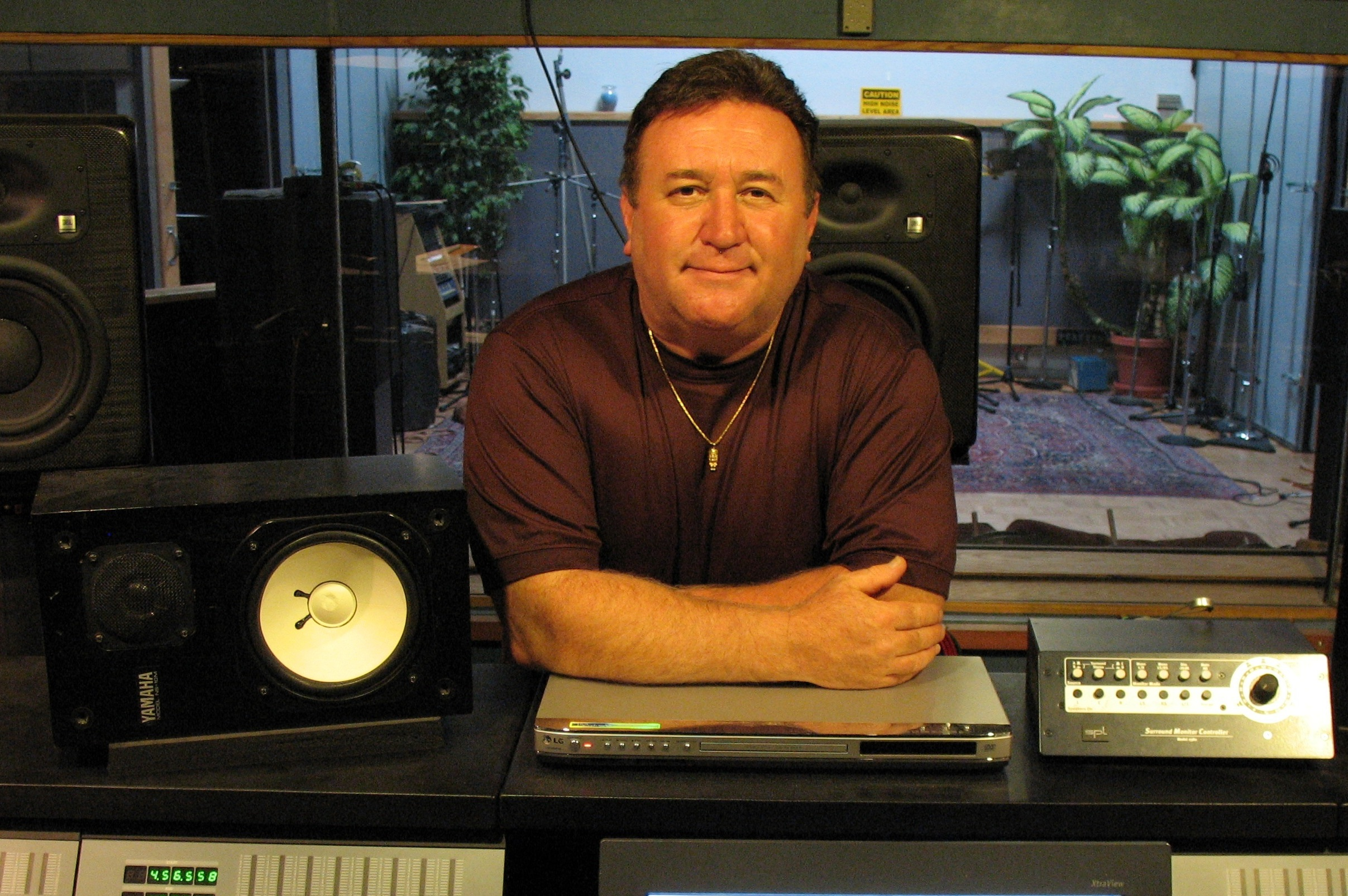 Joel Jaffe standing in Recording Studio